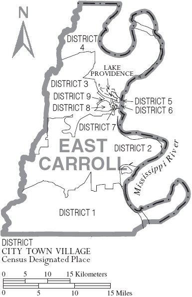 Map of East Carroll Parish, Louisiana, United States with district and municipal boundaries